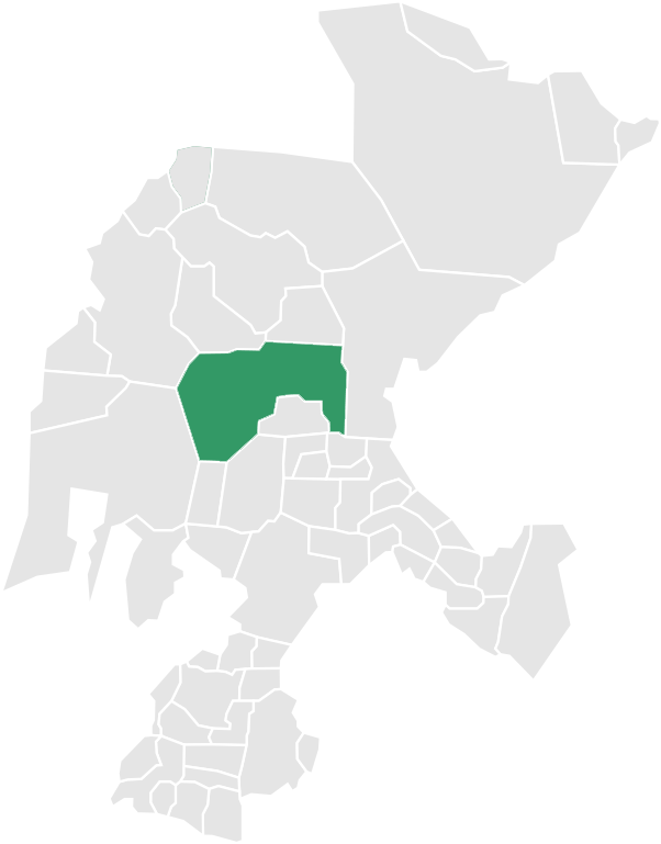 Map of the Municipality of Fresnillo in Zacatecas, México.